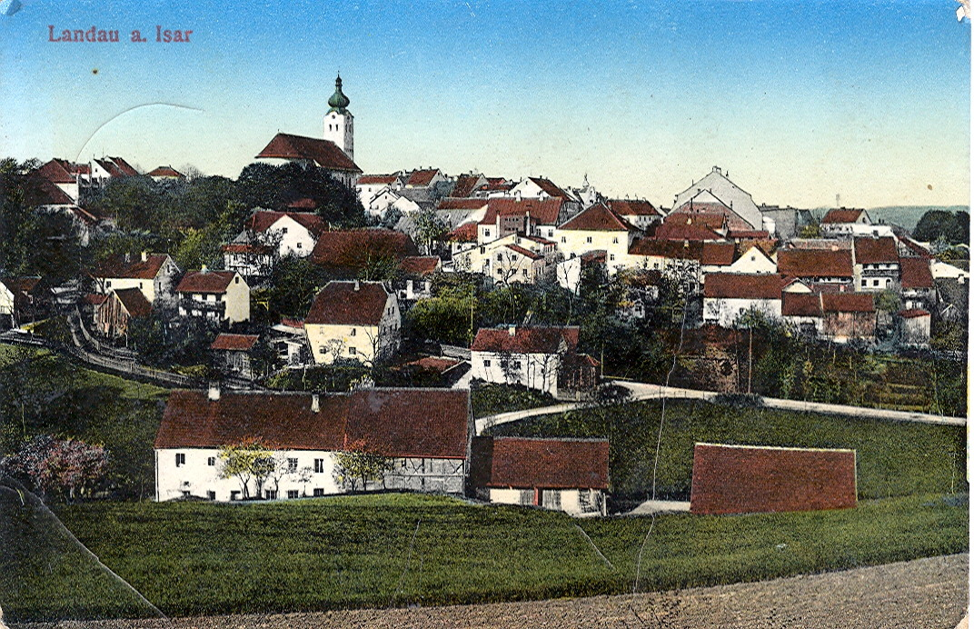 Postcard, dated 18.5.1917. Title: "Landau at the Isar river"